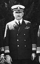 Admiral Samuel S. Robison, modified photo from U.S. Navy